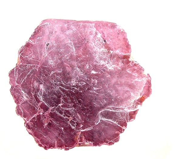 Lepidolite Locality: Virgem da Lapa, Jequitinhonha valley, Minas Gerais, Southeast Region, Brazil (Locality at ) Beautiful, floater crystals of lepidolite! Many of us normally dismiss this mineral as "matrix" but these stand on their own merits as fine crystal specimens. In person, very lustrous and quite beautiful as they are a deep hue of lavender-purple. 2.4 x 2.1 x 0.7 cm